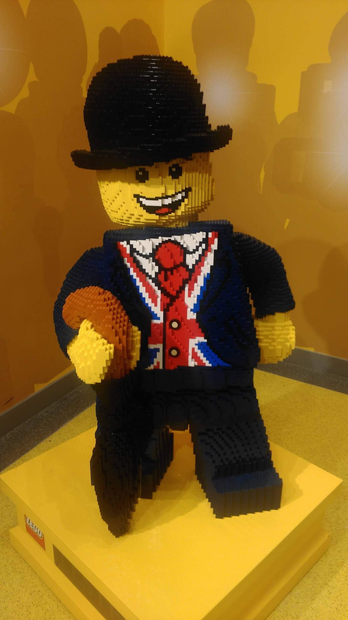 Lester mascot at Lego store in Leicester Square, London, United Kingdom